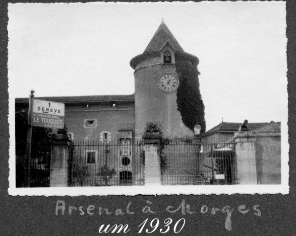 Arsenal in Morges, Vaud, Switzerland in 1930